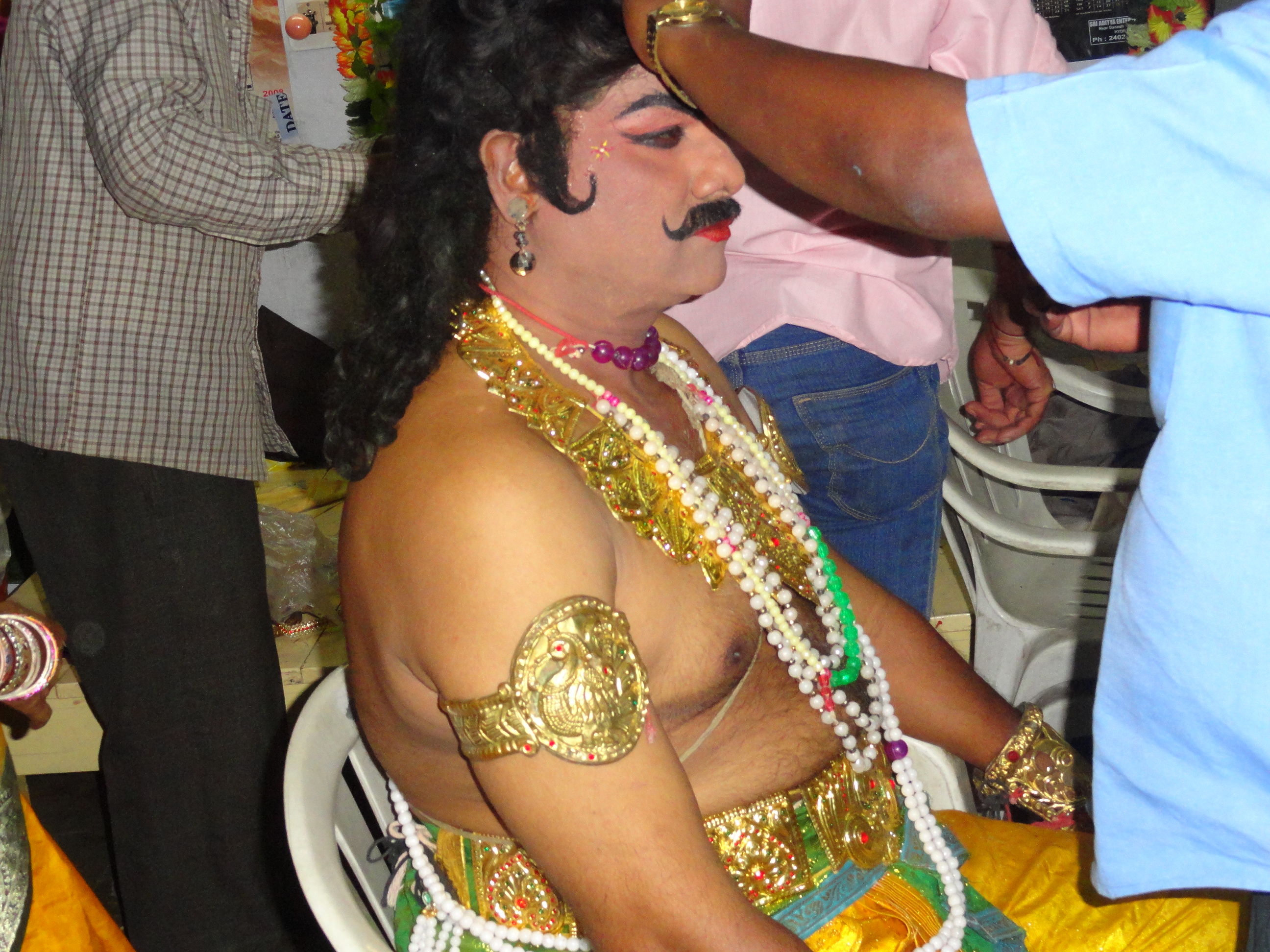 bhima being make up for the stage of a drama.